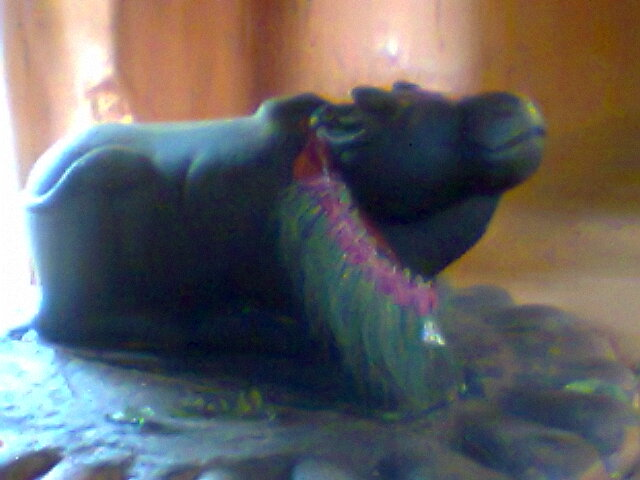 Dhuleshhwar